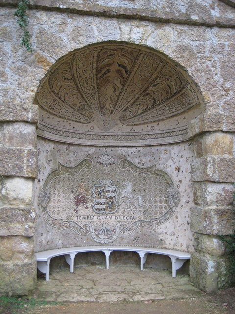 Pebble Alcove - Stowe Gardens